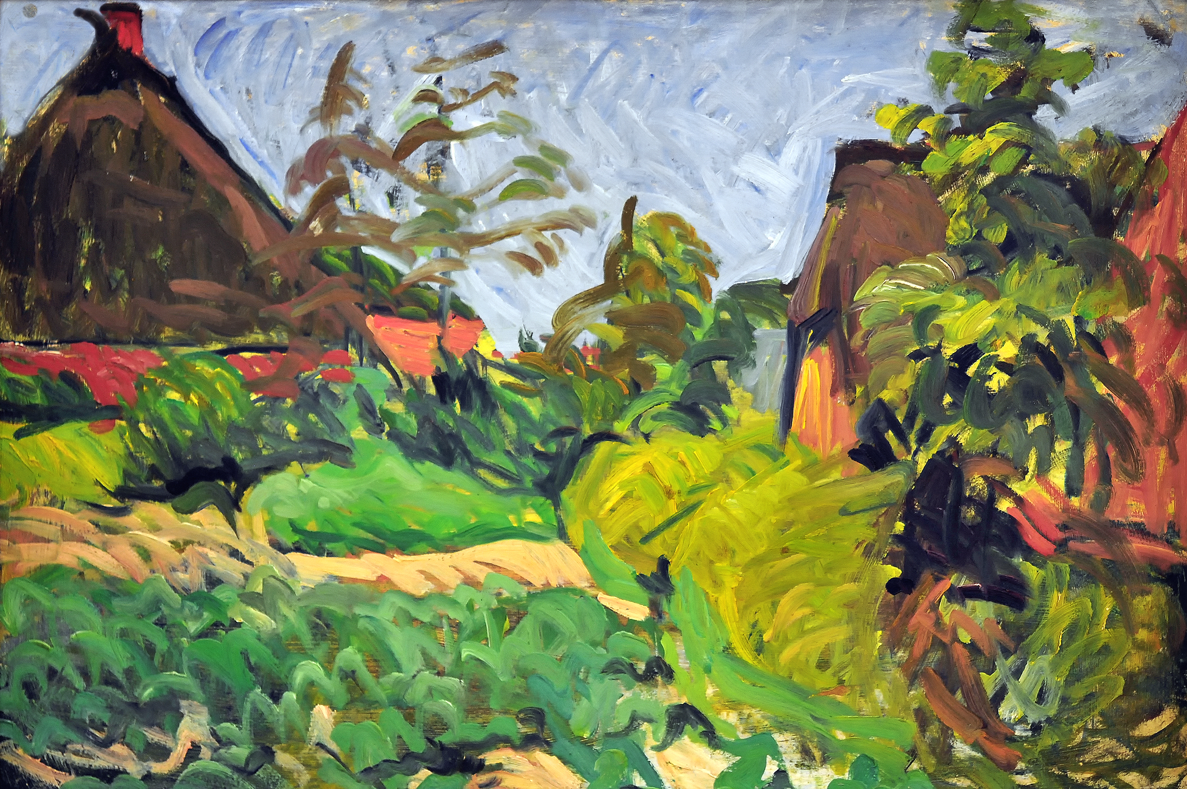 August Haake painted "Summer in Fischerhude" over a period of 1911-1914 in Fischerhude near Bremen.